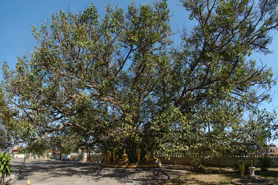 Vat That Luang Tai, Vientiane, Laos.